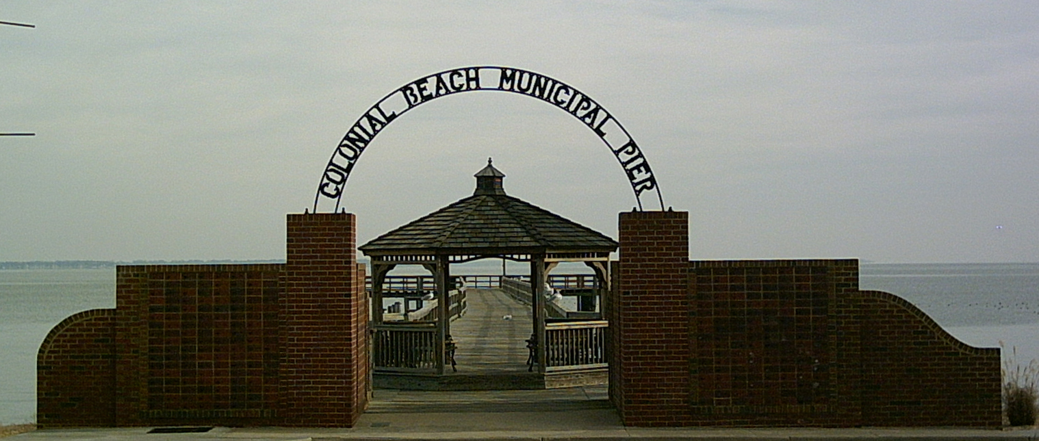 Image cropped from one taken by me for Wikipedia